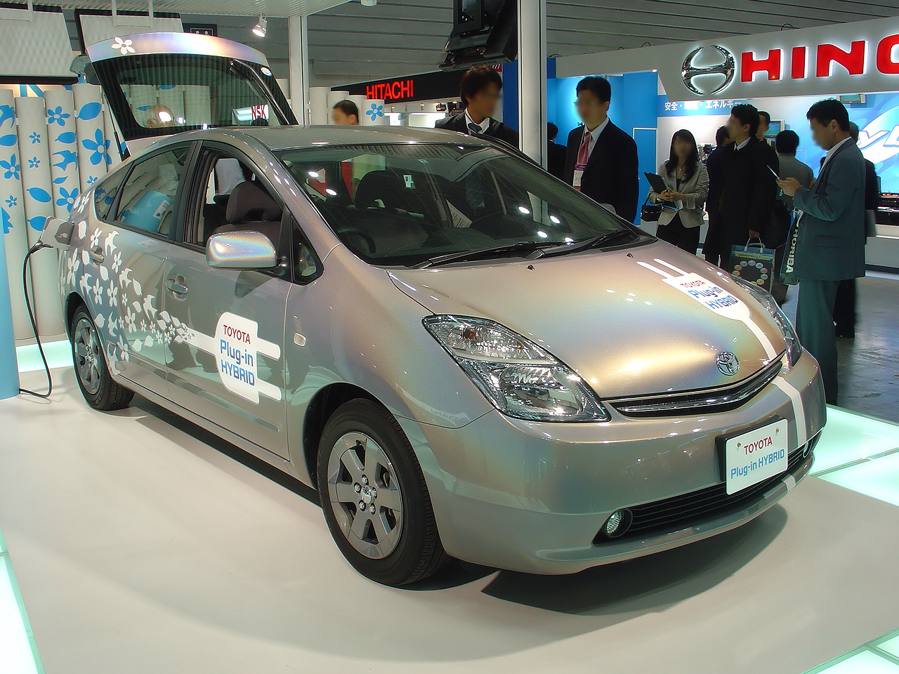 Toyota Prius Plug-in HYBRID. Taken at Automotive Engineering Exposition 2008(Pacifico Yokohama Exhibition Hall, Yokohama City, Kanagawa Prefecture, Japan)